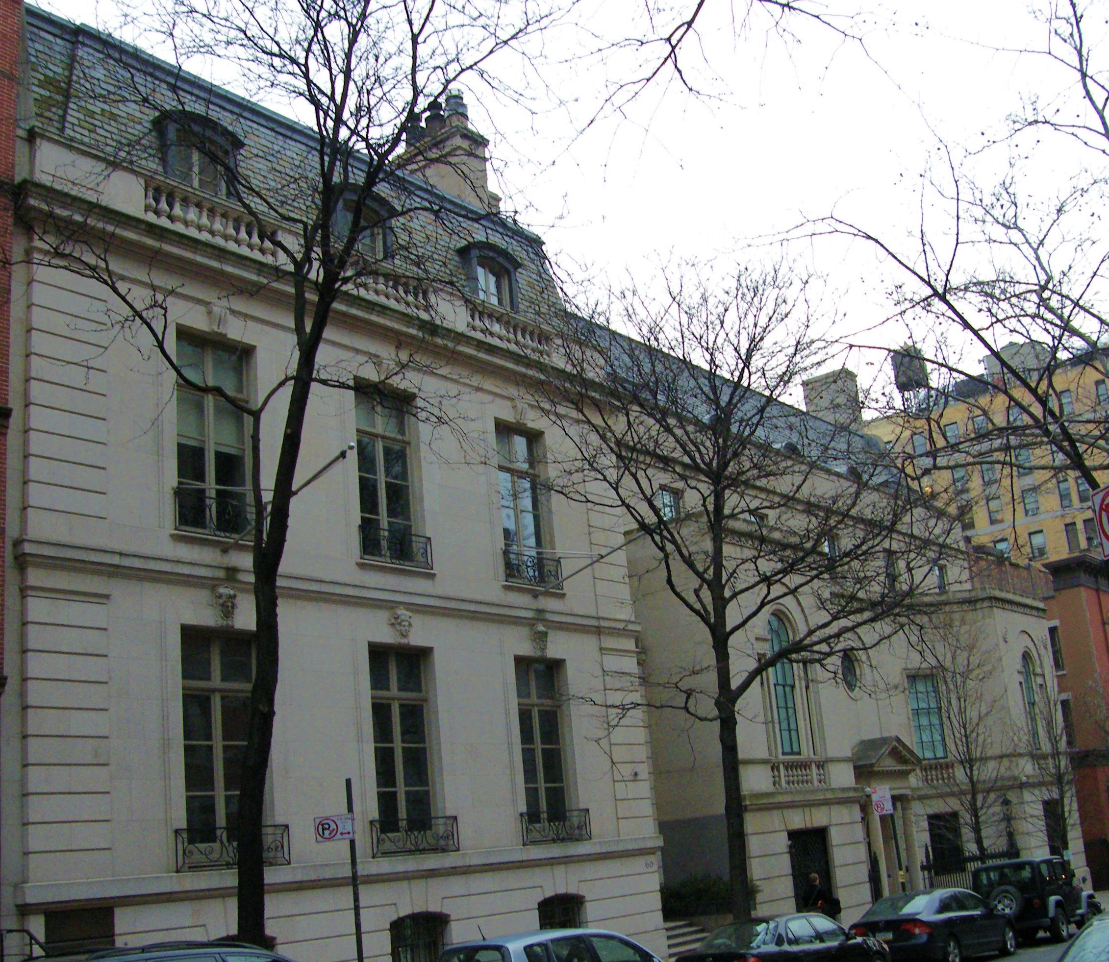 Looking west at Virginia Graham Fair Vanderbilt Mansion at 60 East 93rd on National Register of Historic Places in New York City. NYCLPC designation 1968.